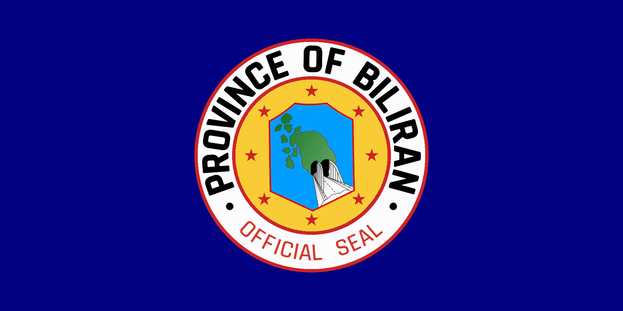 Provincial flag of Biliran